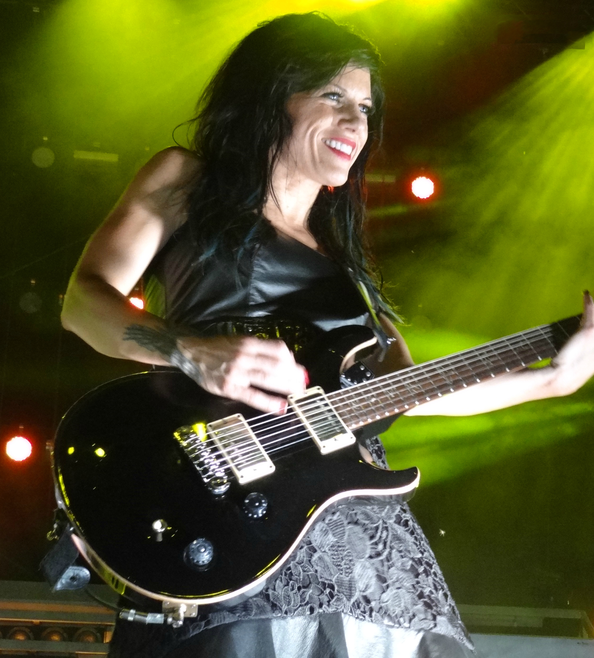 Korey Cooper at the Alive Festival 6/22/13